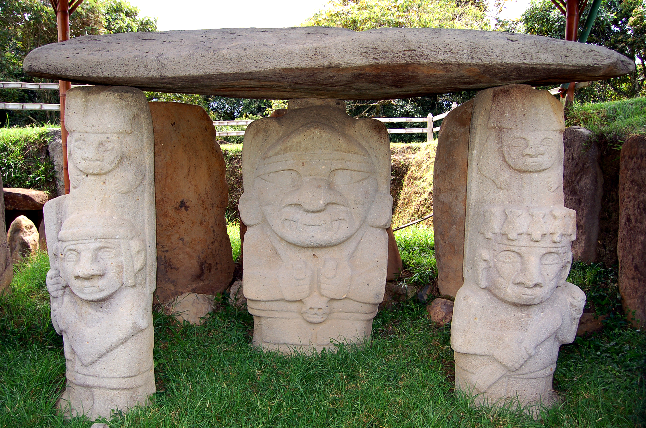 Tomb with deity. Warriers with alter ego serve as pillars for the tomb